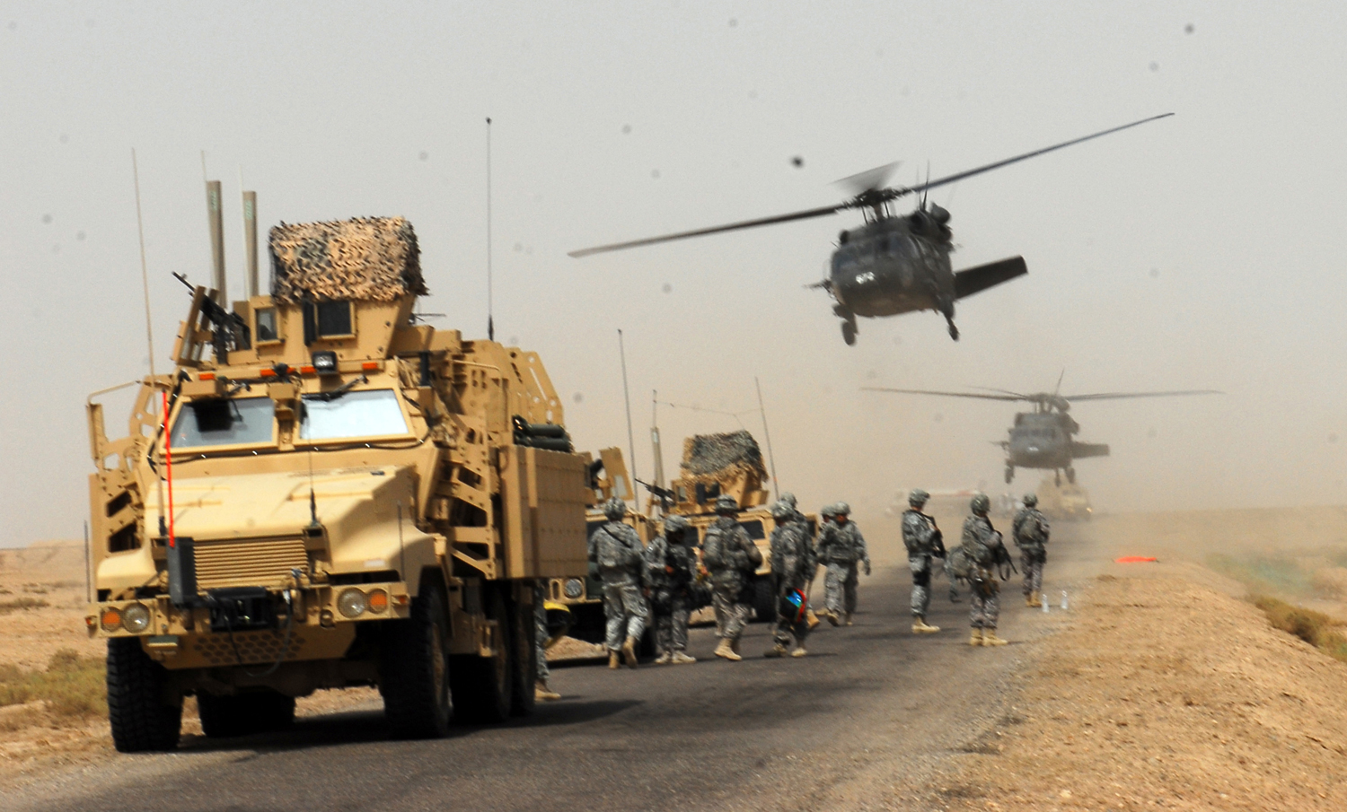 Soldiers from 17th Fires Brigade and 2nd Brigade Combat Team, 4th Infantry Division, arrive by air and convoy to assist the Iraqi Army distribute humanitarian aid to the citizens of Faddaqhryah and Bahar in the Basra Province of Iraq, Aug. 18. U.S. Army photo by Spc. Maurice A. Galloway, 17th Fires Brigade, Public Affairs Specialist See more at Soldiers provide goods, goodwill to Iraqi villages